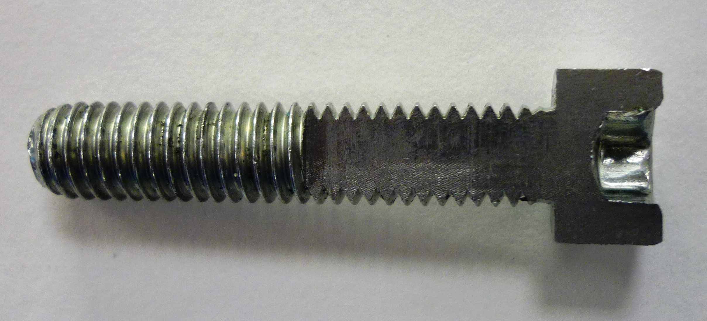 Socket head cap screw accidentally machined by a student.